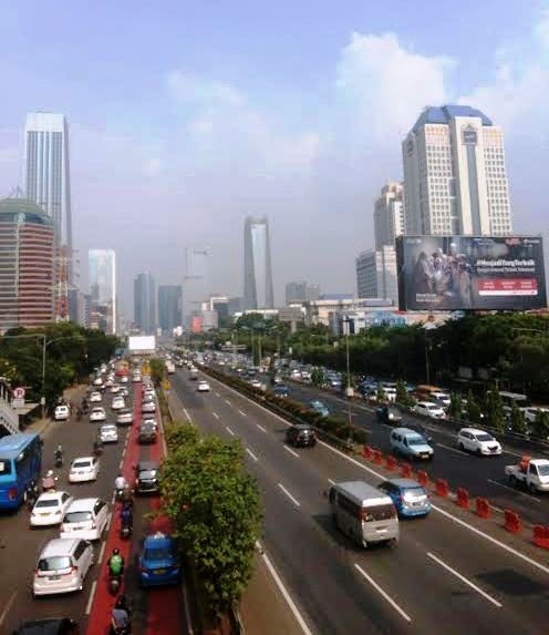 Jalan Jenderal Gatot Subroto, Jakarta